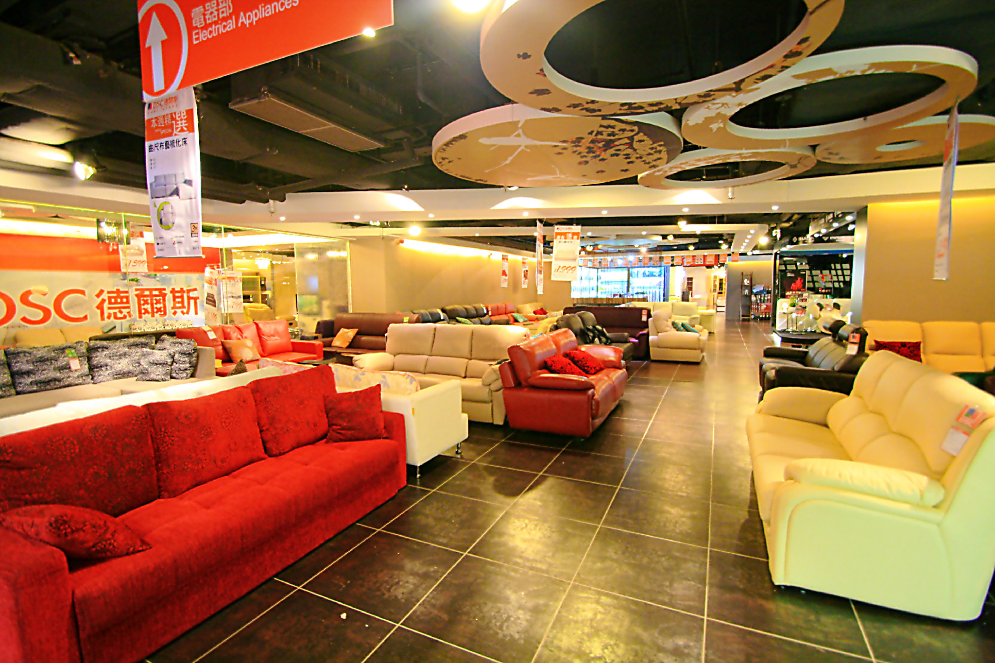 dsc shatin shop